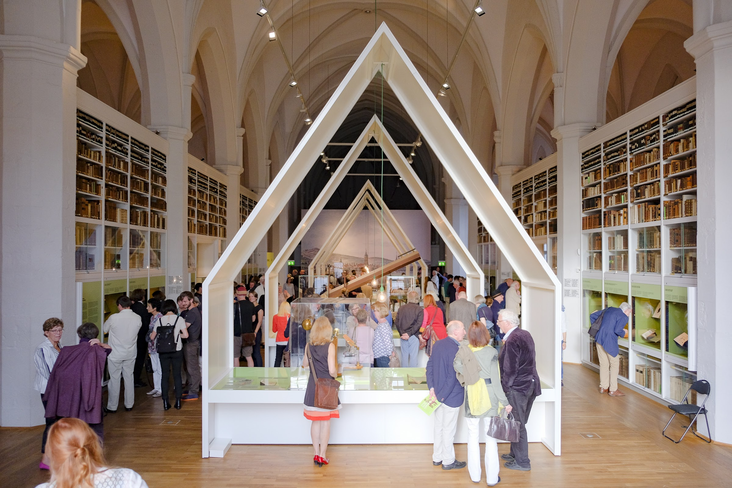 The exhibition DingeDenkenLichtenberg shows Georg Christoph Lichtenberg's instruments together with his letters, his famous waste books and other sources.